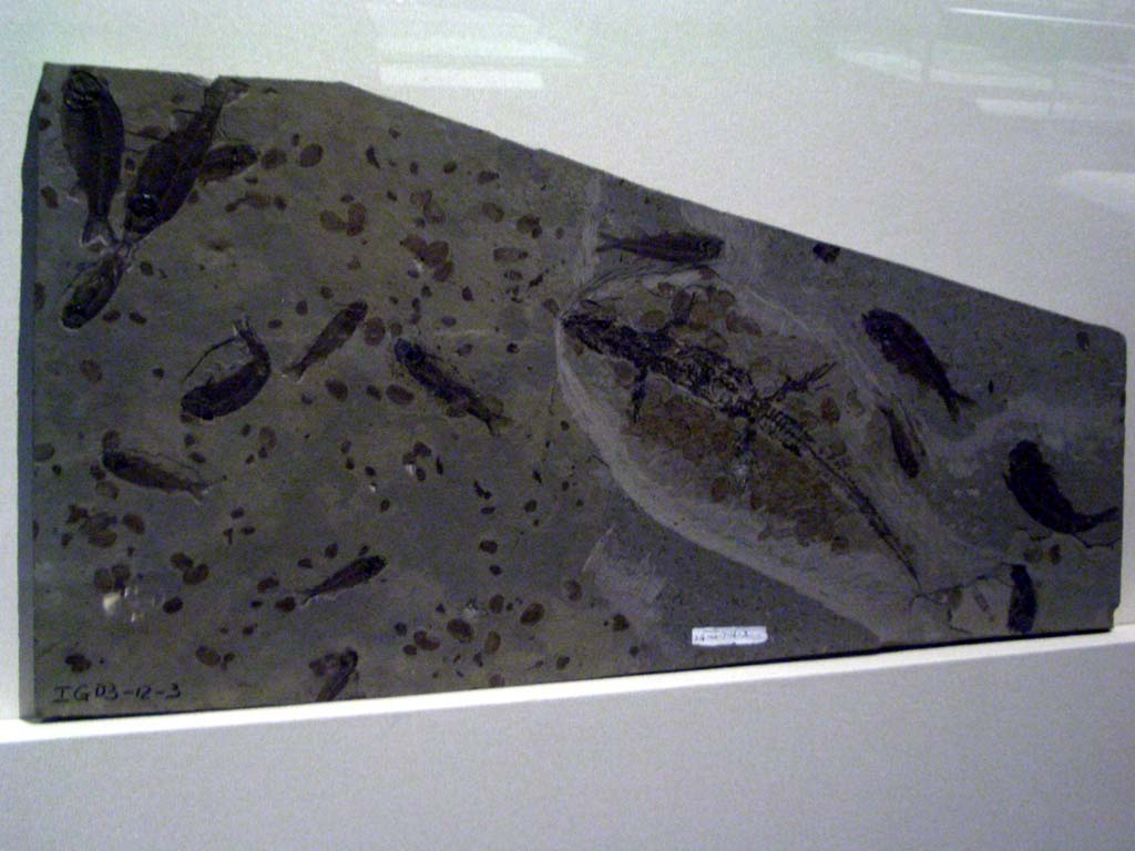 Lycoptera muroii displayed in Hong Kong Science Museum